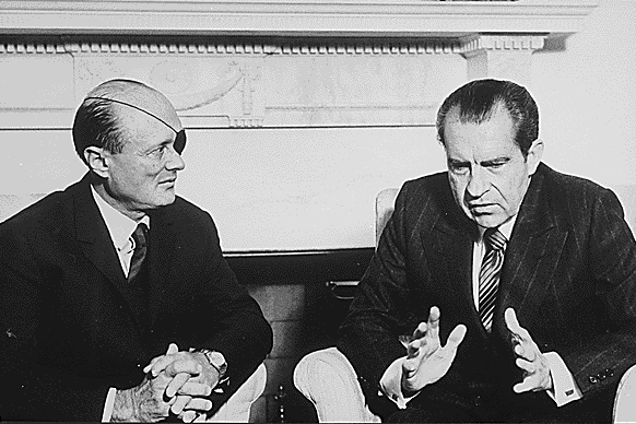 President Nixon with Israeli Defense Minister Moshe Dayan